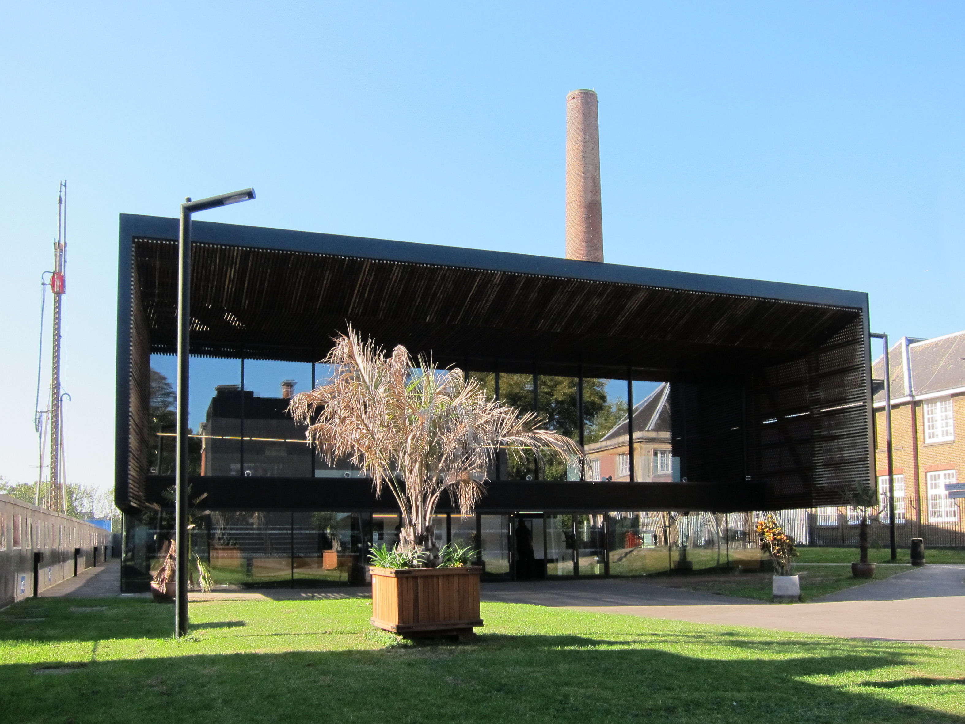 Saturday 15 October 2011. Zena and I went to a meeting at the former Tottenham Town Hall. At lunchtime we strolled next door to enioy some of the beautiful October sunshine. See where this picture was taken.